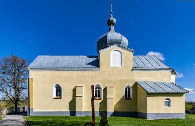 Church of the Holy Prophet Elijah PCU village Kosteiv. Current state.